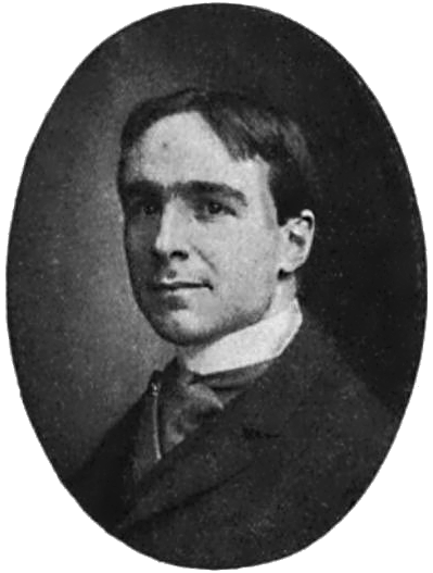 1898 illustration of the American novelist Winston Churchill.